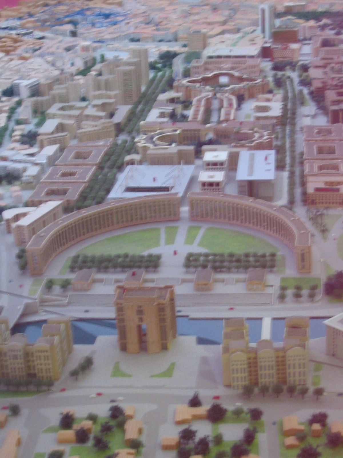 Model of the city of Montpellier (Southern France) exposed in the City Hall- picture taken in January 2008 - Antigone